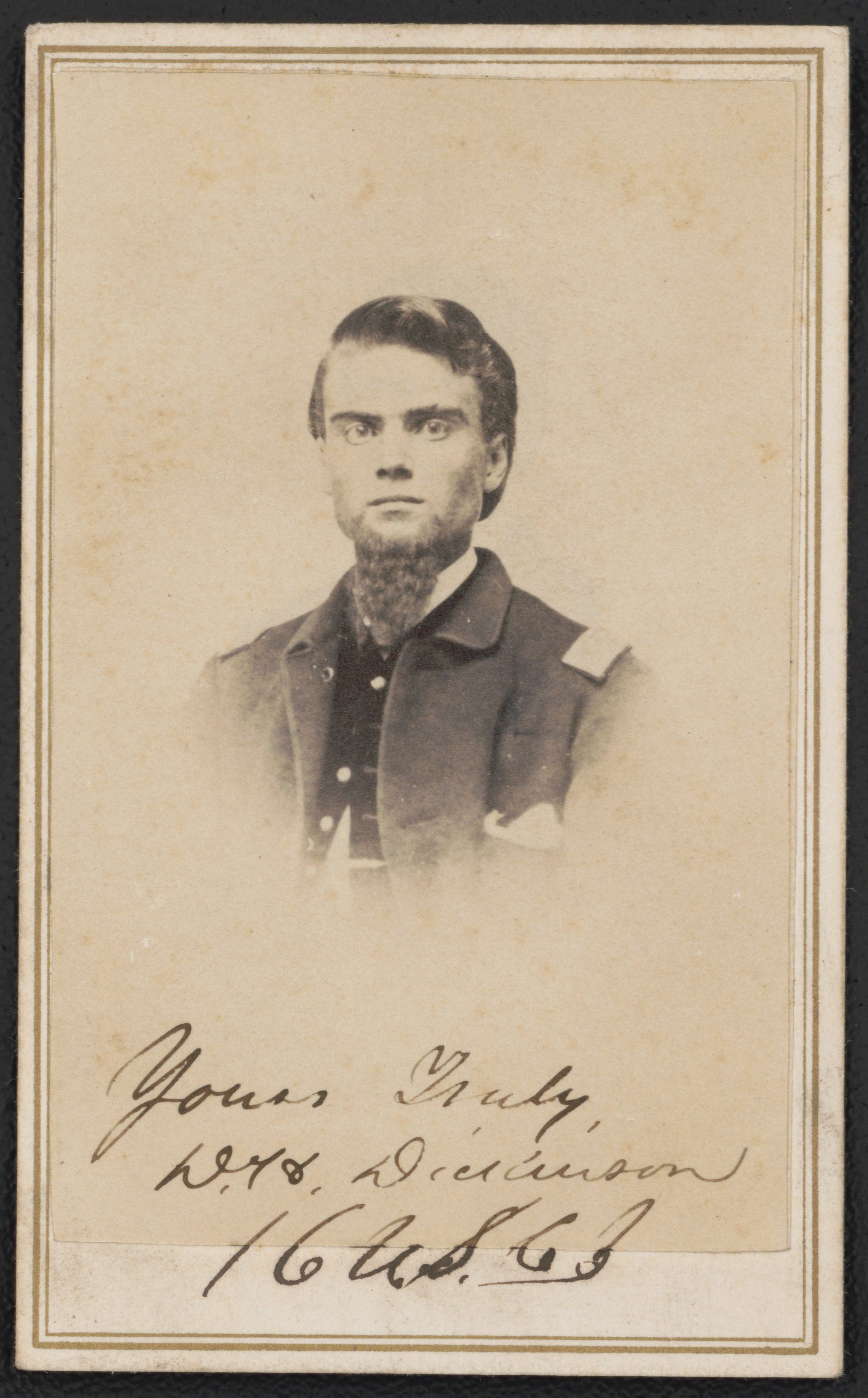 Title: Corporal David H. Dickinson of Co. K, 36th Illinois Infantry Regiment and Co. F, 16th U.S. Colored Troops Infantry Regiment in uniform] / Frank Green, artiste, no. 59 Clark St., opposite Sherman House, Chicago Abstract/medium: 1 photograph : albumen print on card mount ; mount 11 x 6 cm (carte de visite format)